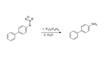 The synthesis of 4-aminobiphenyl